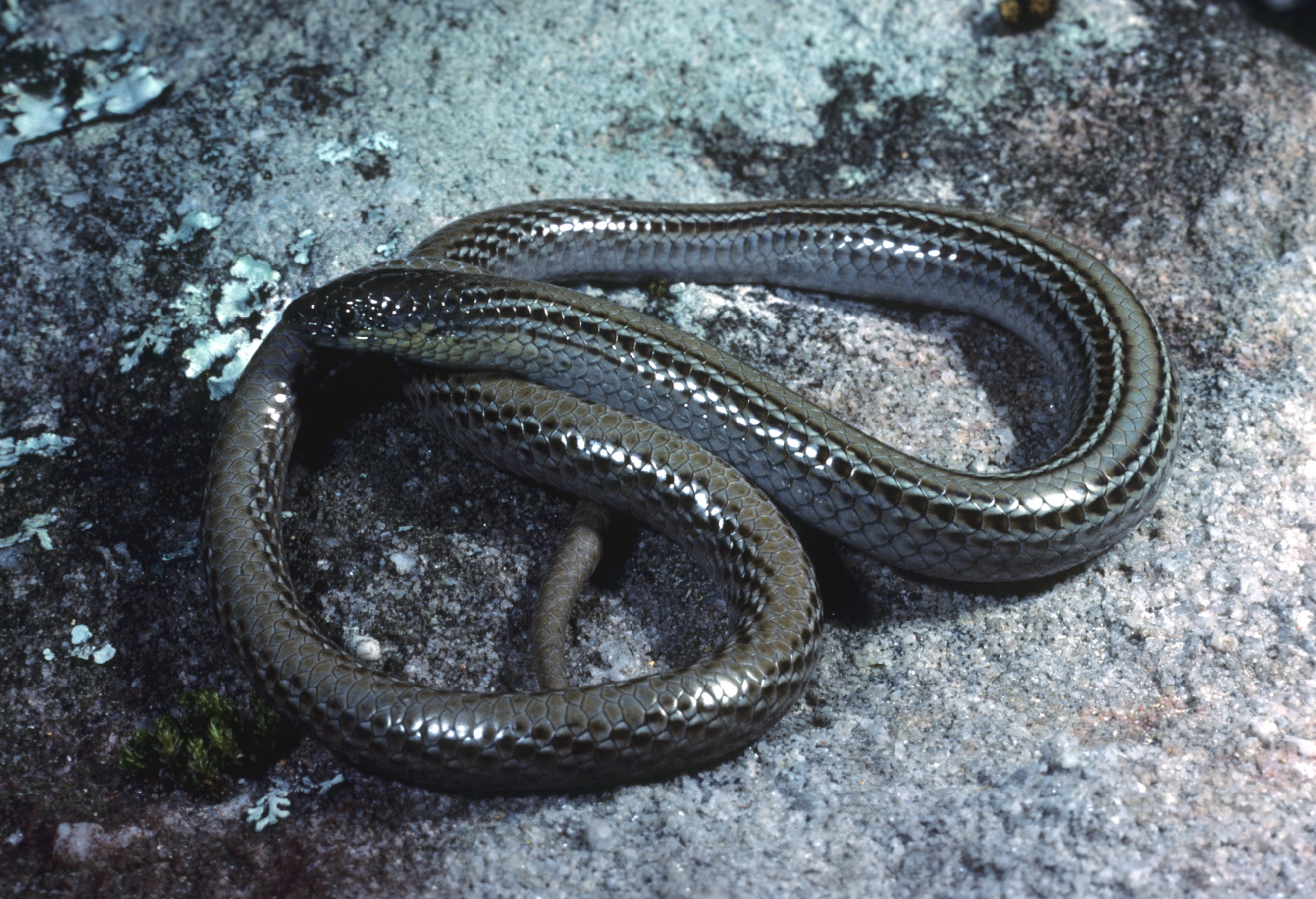 Striped legless lizard (Delma impar) photographed at Crace, Canberra, ACT, 9 Sep 1977